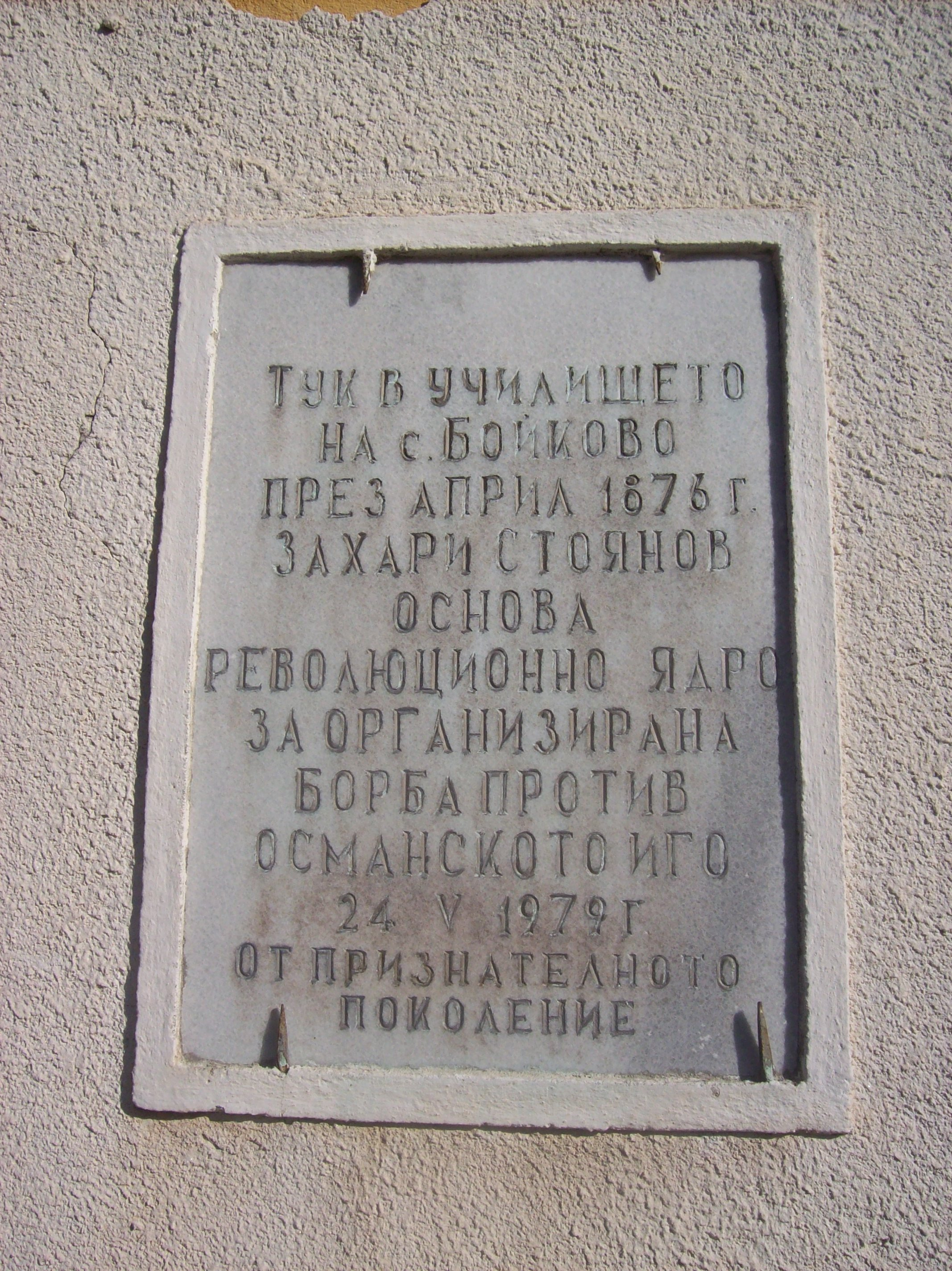 Monument on former shcool, now municipality in Boikovo, Bulgaria, Europe